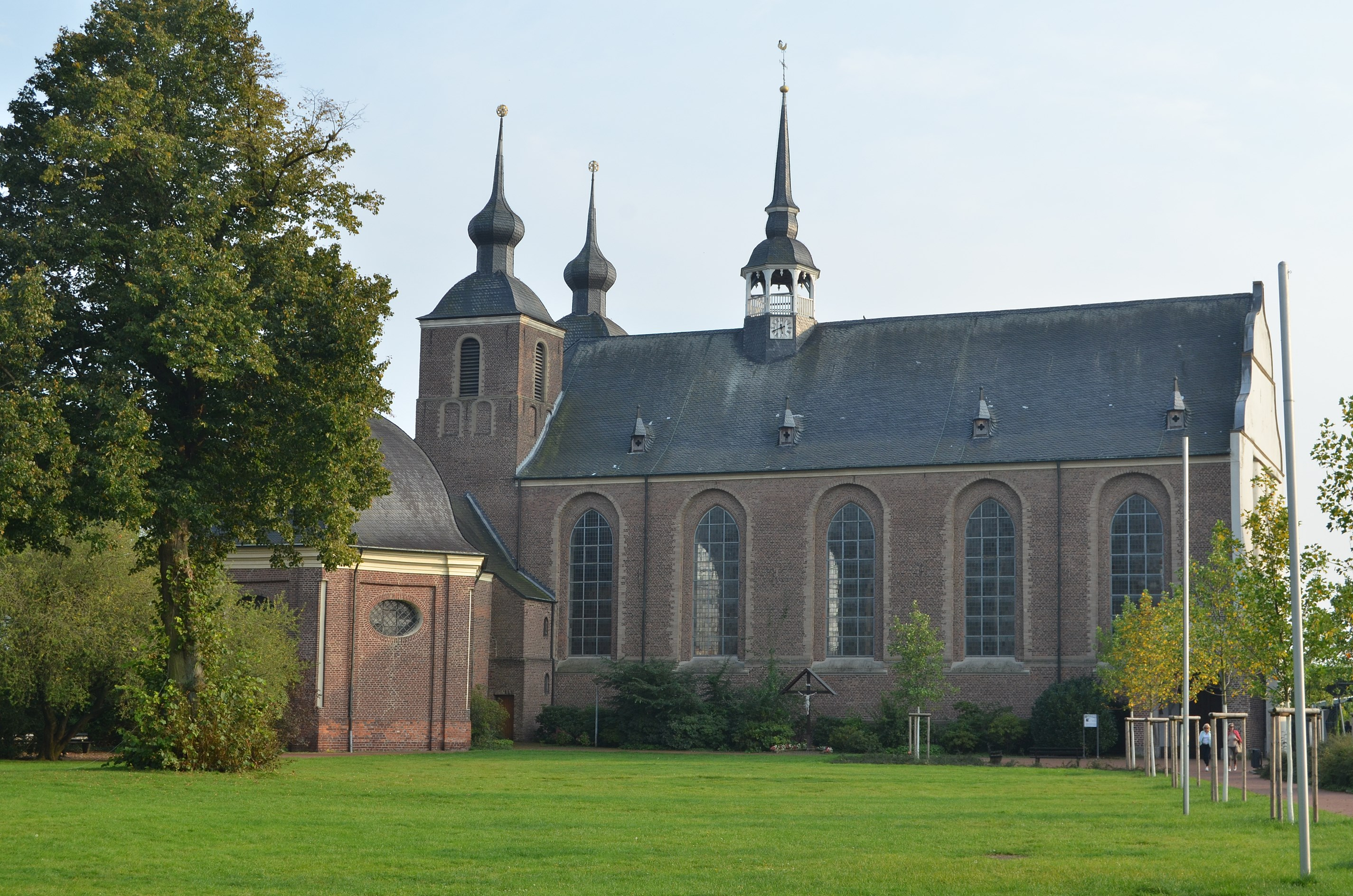 Kamp-Lintfort (North Rhine-Westphalia, Germany) – Kamp Abbey – abbey church – view over the abbey square This image shows a heritage building in Germany, located in the North Rhine-Westphalian city Kamp-Lintfort (no. 1). This photograph was taken with a Nikon D7000